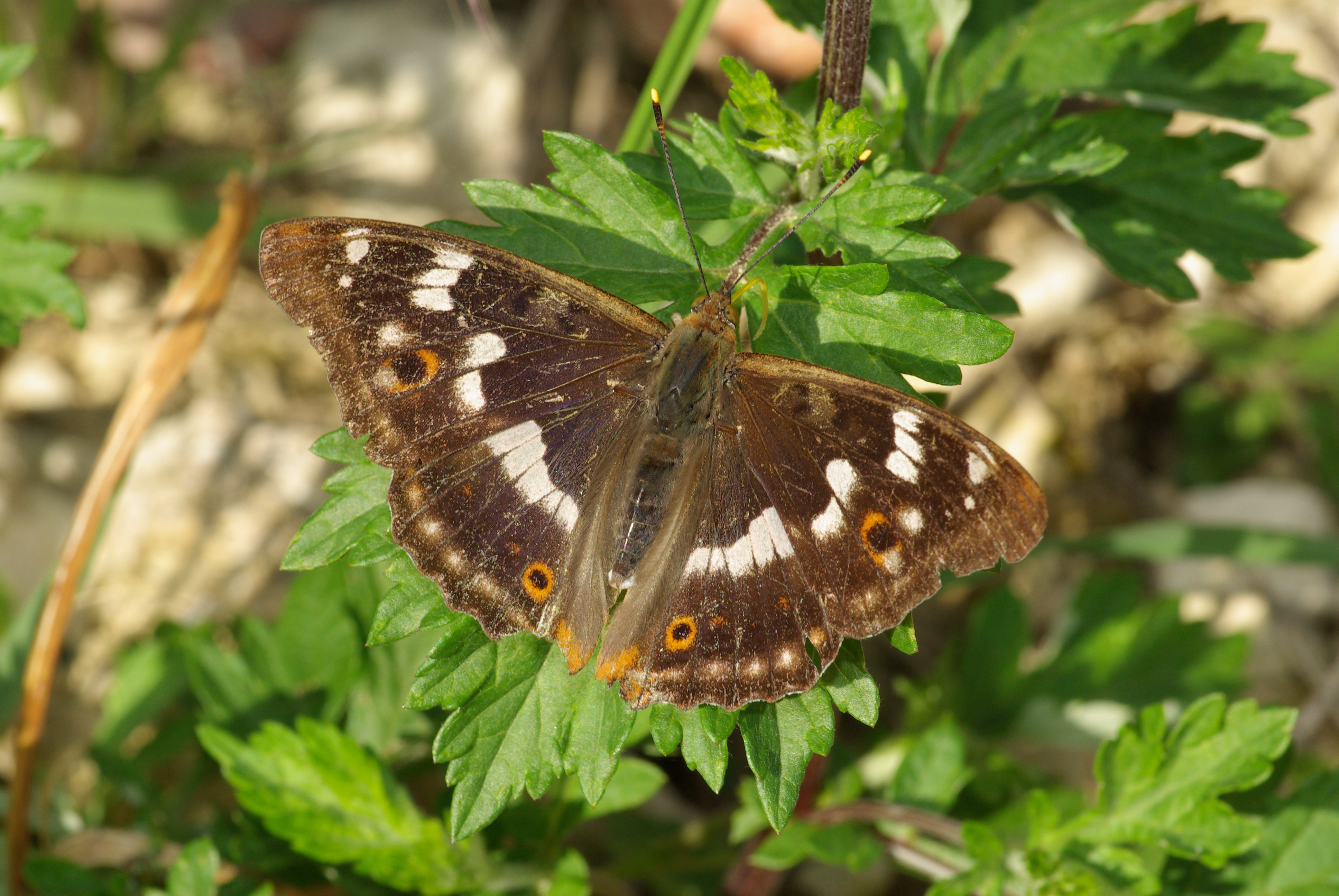 Butterfly Apatura Ilia taken in Normandie (14)